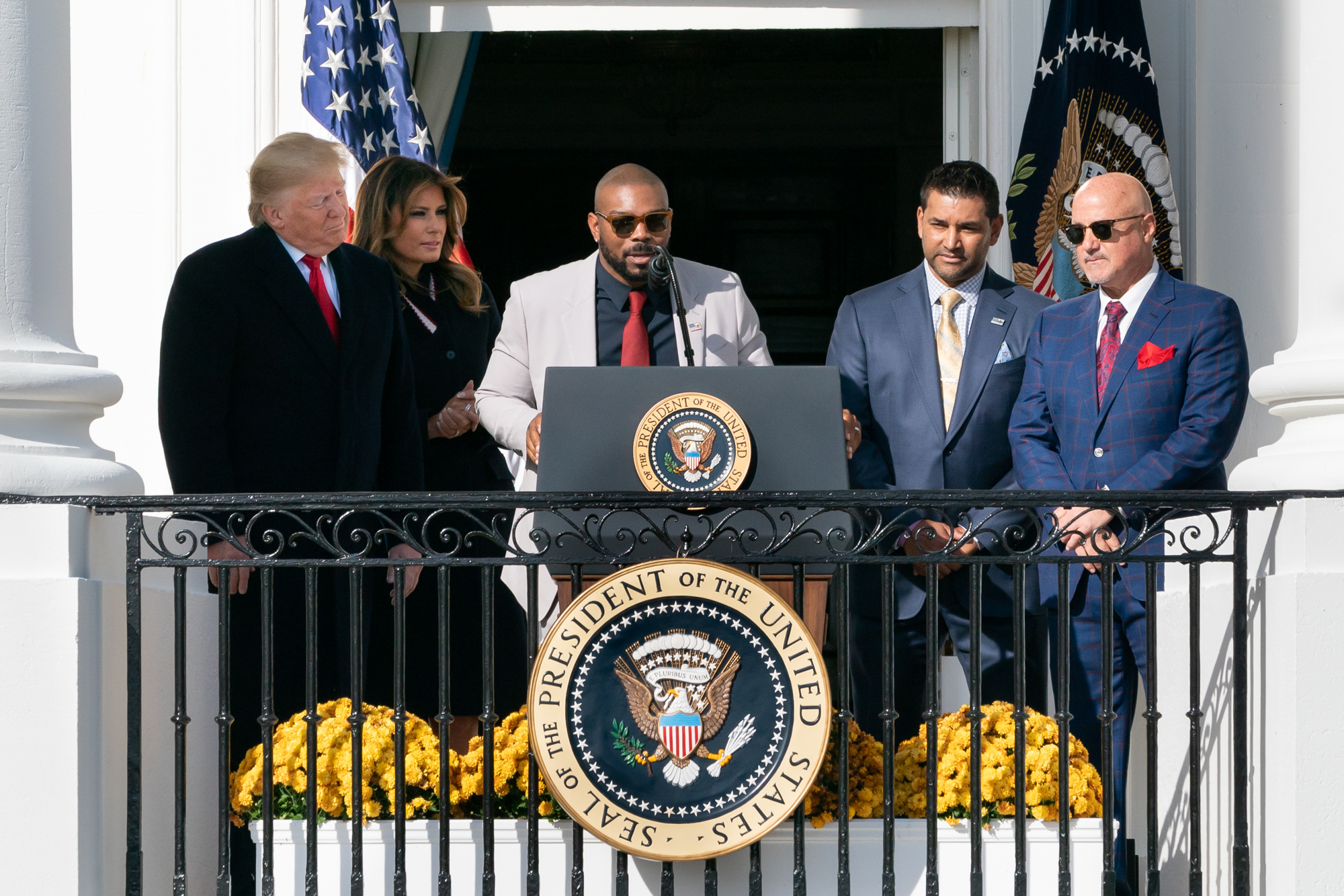 Nationals second baseman Howie Kendrick delivers remarks from the Blue Room Balcony of the White House as President Donald J. Trump, First Lady Melania Trump, Nationals Manager Dave Martinez and Nationals General Manager Mike Rizzo look on Monday, Nov. 4, 2019, during the celebration of the 2019 World Series Champions, the Washington Nationals on the South Lawn. (Official White House Photo by Andrea Hanks)